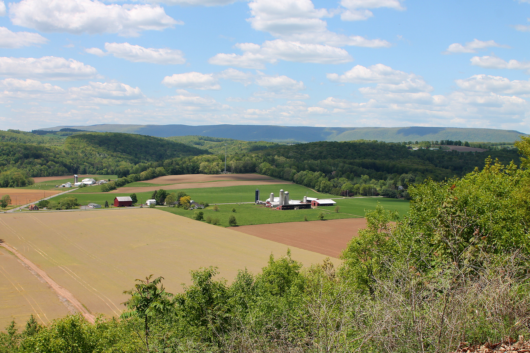 Benton Township looking northwest from the Benton Overlook